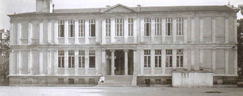 The Evangelical School of Symrna (Izmir) Ottoman Empire (1733-1922).